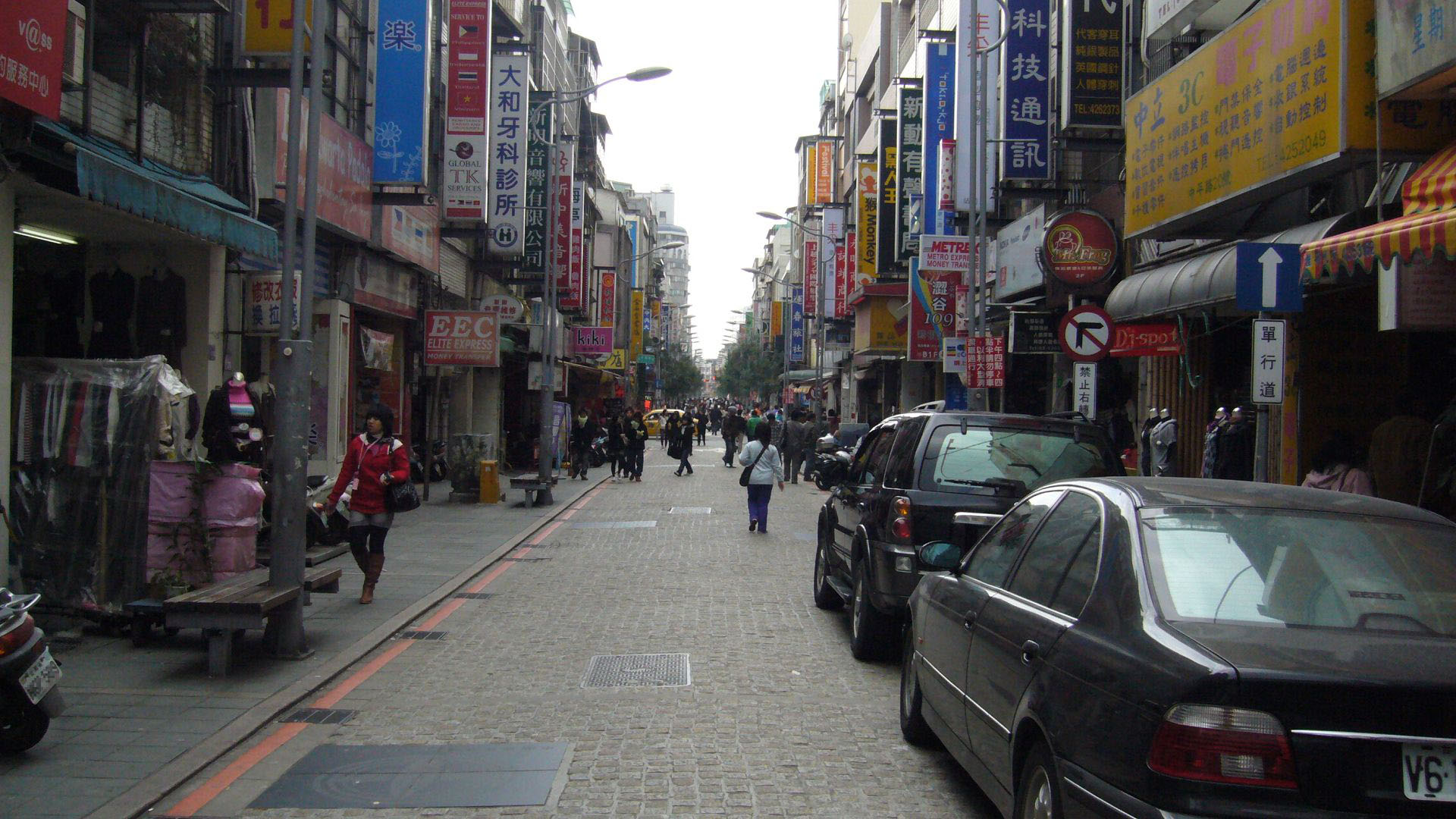 Jhongping Road Pedestrian Zone, Jhongli City, Taiwan